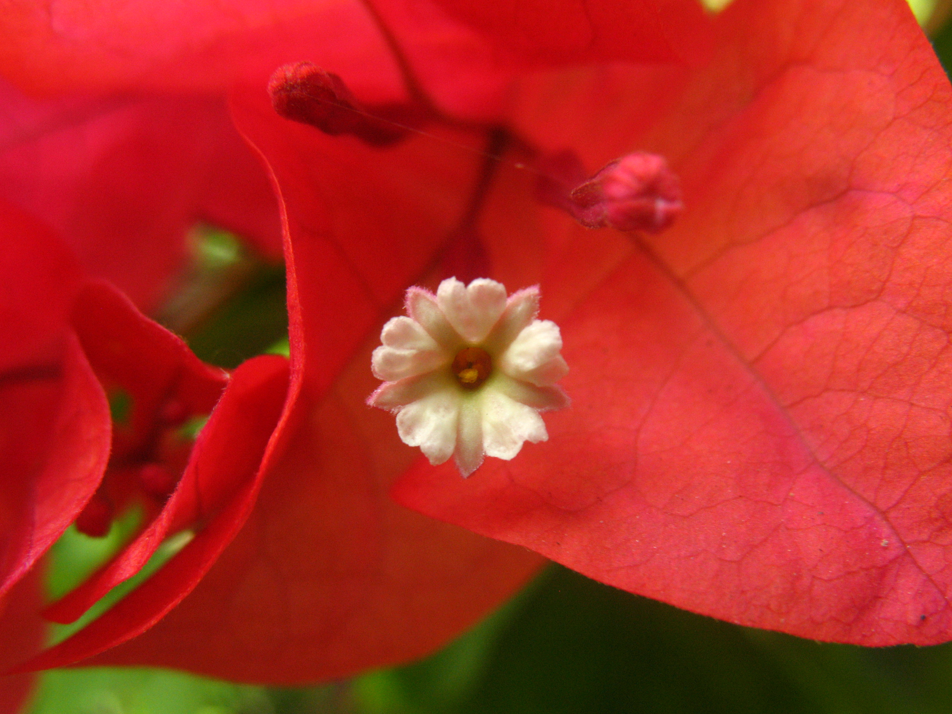 Bougainvillea Torch Glow (Vellayani Agri. University. TVPM)